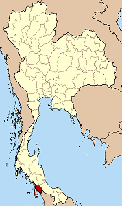 Map of Thailand highlighting Satun province